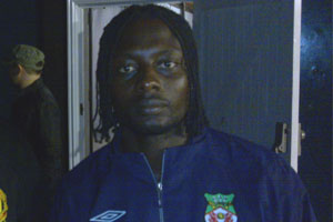 Picture of Lamine Sakho.